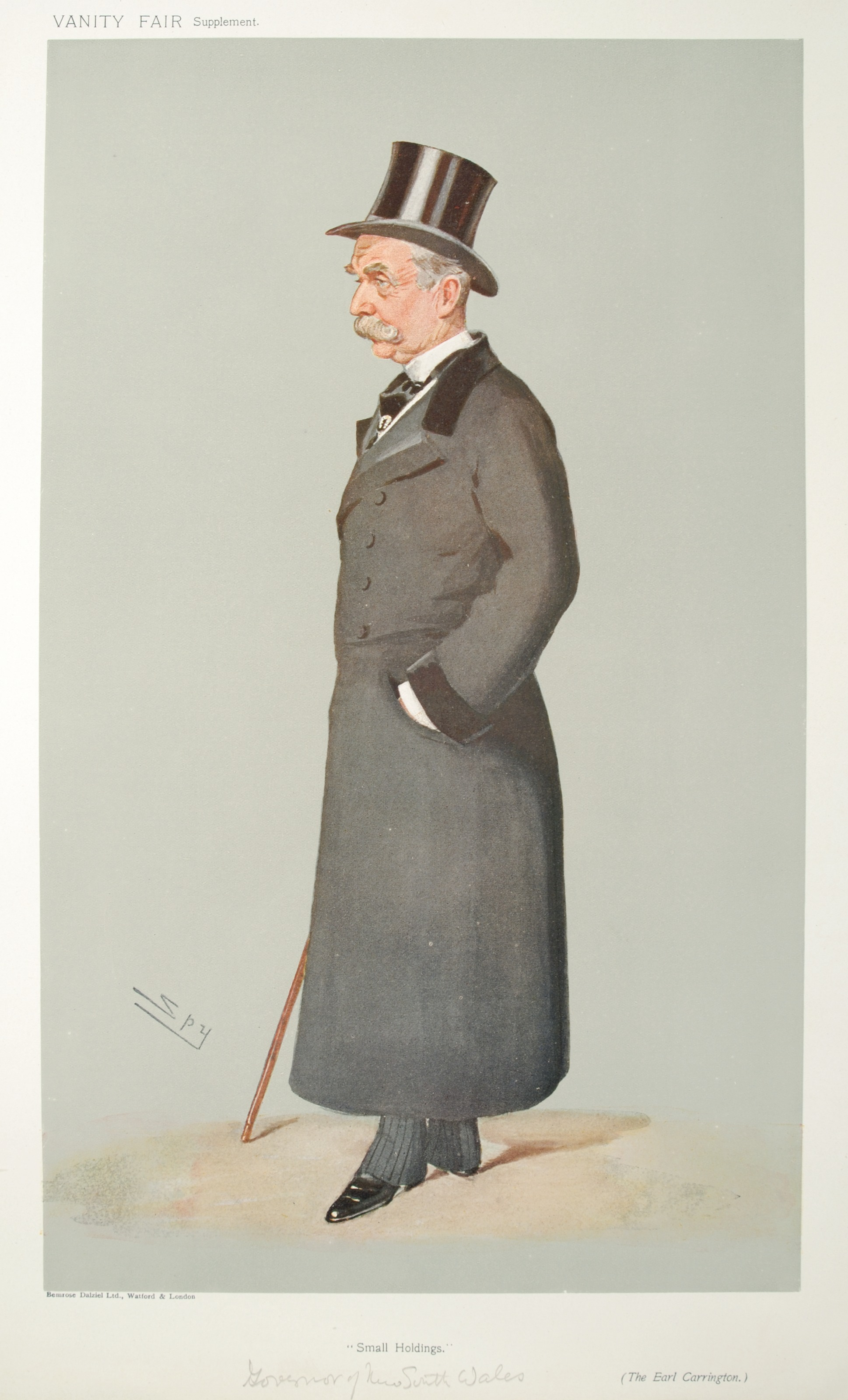 Caricature of Robert Wynn Carrington, Earl Carrington (1843-1928). Caption read "Small holdings".